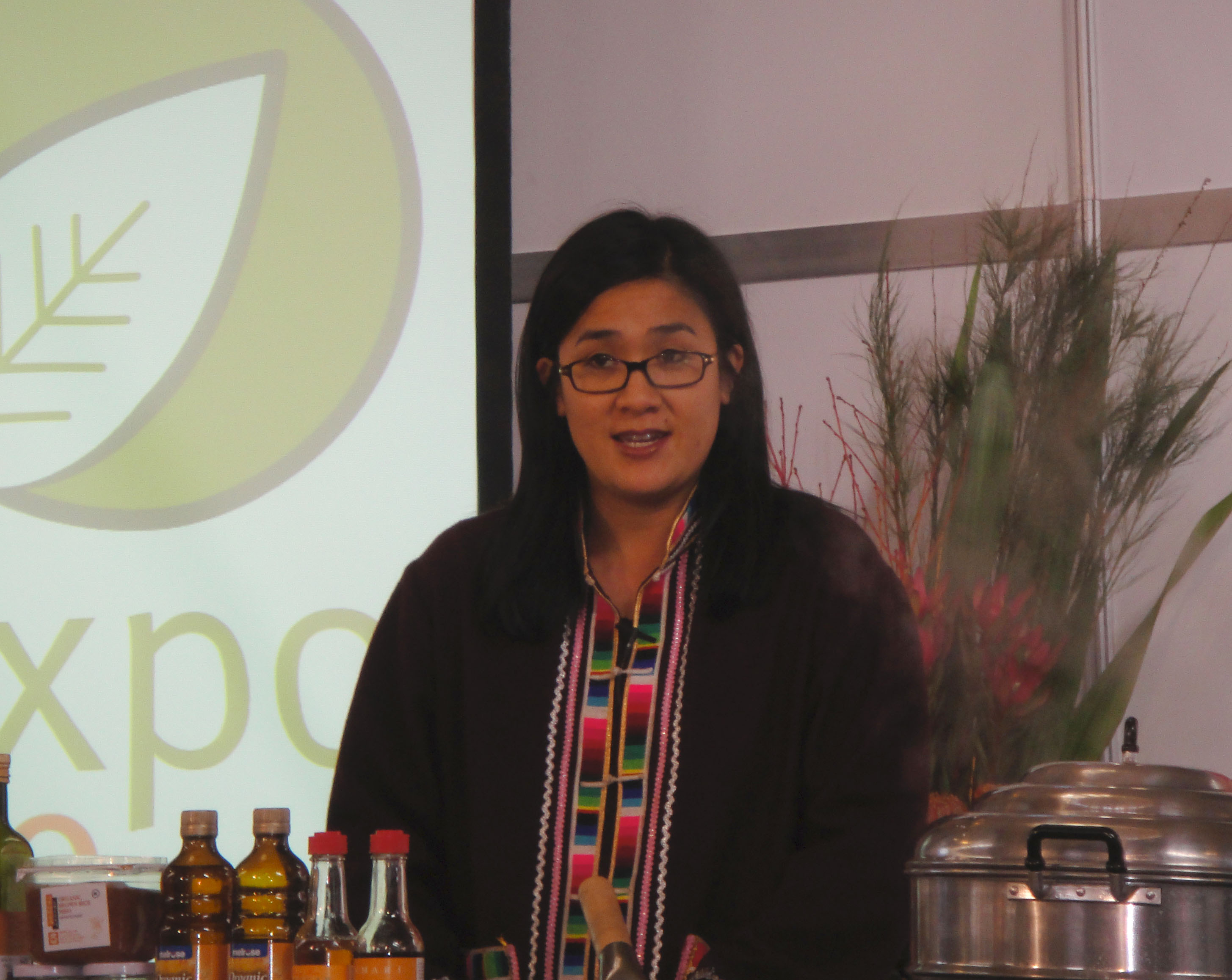 Kylie Kwong presenting at Organic Expo in Melbourne 2009